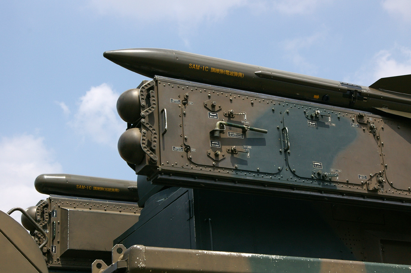 Taken by Los688,29-Apr-2008,JGSDF Camp-Shimoshizu.JGSDF Type 81C Surface-to-Air Missile,Air Defence Artillery School unit. ja:2008年4月29日、投稿者撮影。陸上自衛隊下志津駐屯地記念行事。81式短距離地対空誘導弾改（発射装置）、高射教導隊。